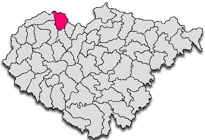 Map Salaj County Romania